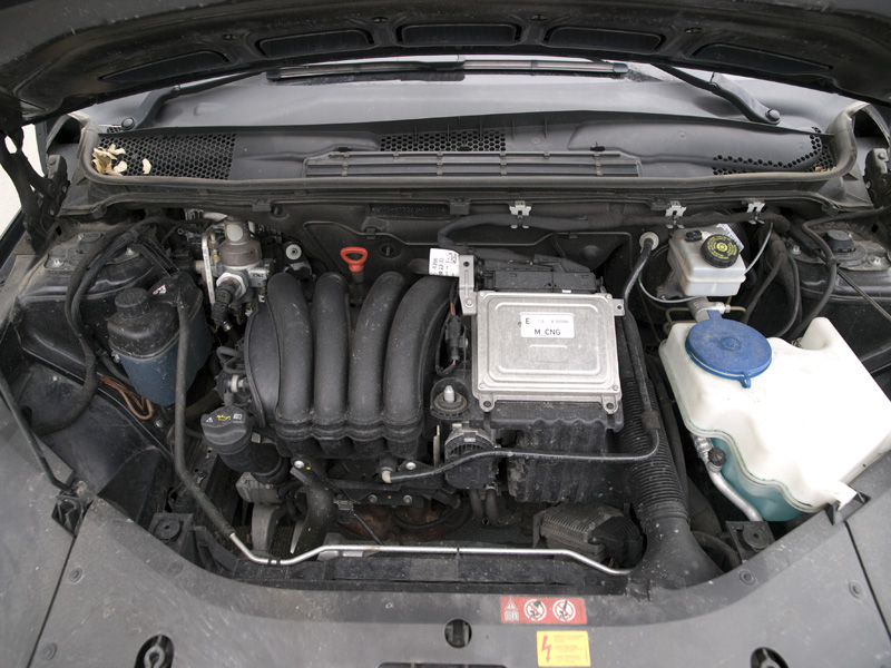 CNG engine in a Mercedes Class A